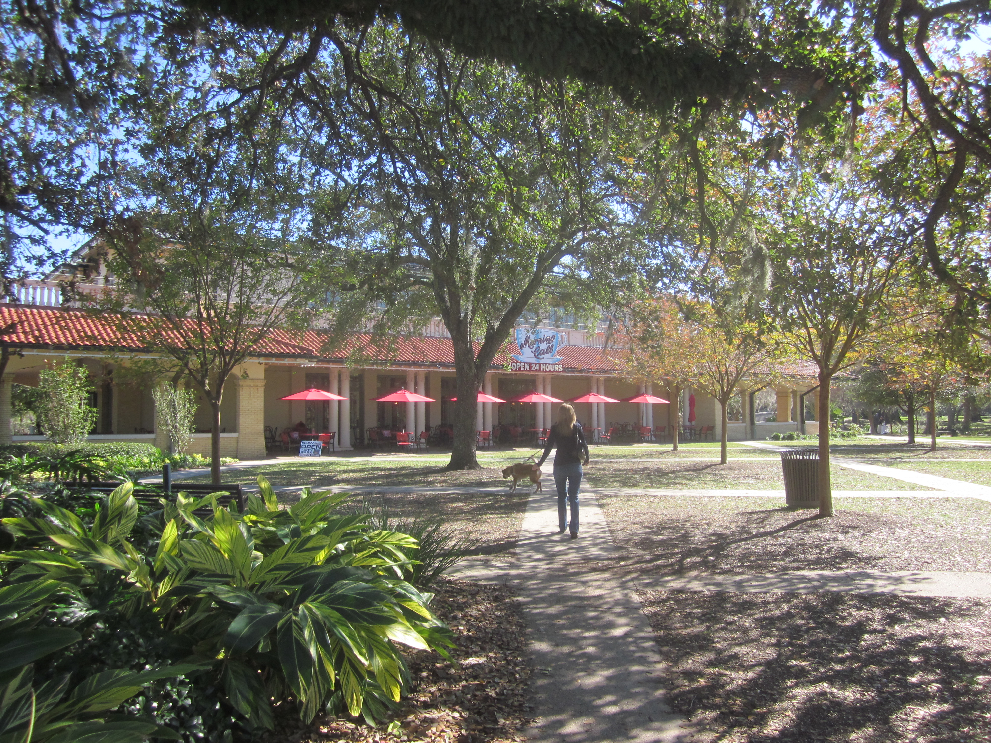 Morning Call opened a new cafe in the old Casino Building a few weeks ago. City Park, New Orleans.